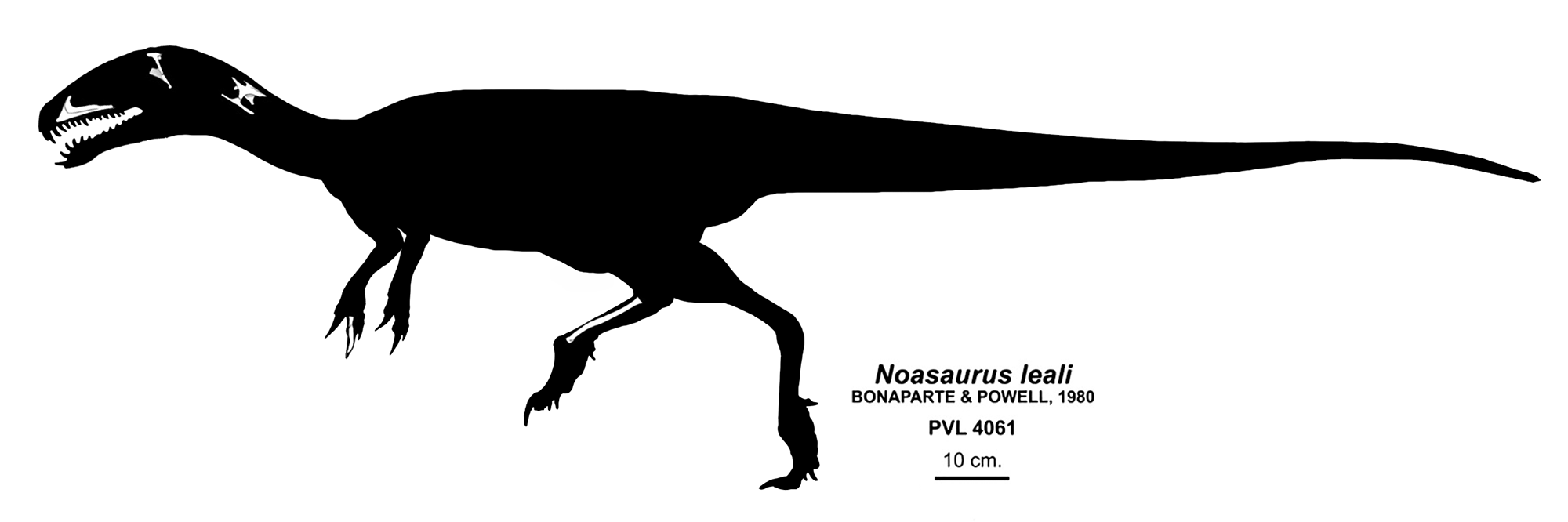 Skeletal diagram of Noasaurus leali